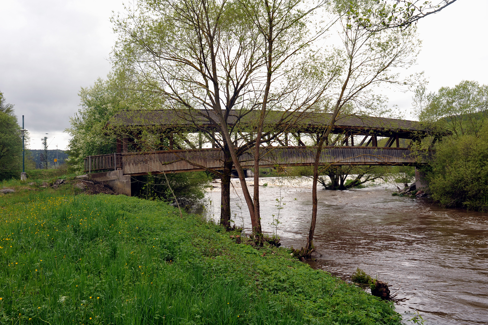 Covered wooden bridge over the Danube in Immendingen; Baden-Württemberg, Germany.